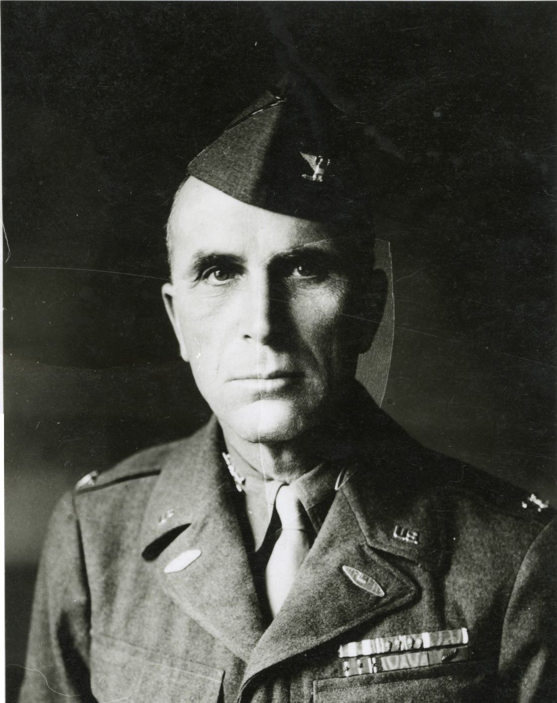 John Tupper Cole (July 23, 1895 - April 24, 1975) was a highly decorated officer in the United States Army with the rank of Brigadier General. A graduate of the United States Military Academy and veteran of both World Wars, he is most noted for his service as Colonel and Commanding officer, Combat Command B, 5th Armored Division during the combats on Western Front. Following the War, he remained in the Army and rose to the rank of Brigadier general and served as Chief, United States Military Assistance Advisory Group in Thailand during the Korean War and completed his career as Acting commanding general, 3rd Armored Division.